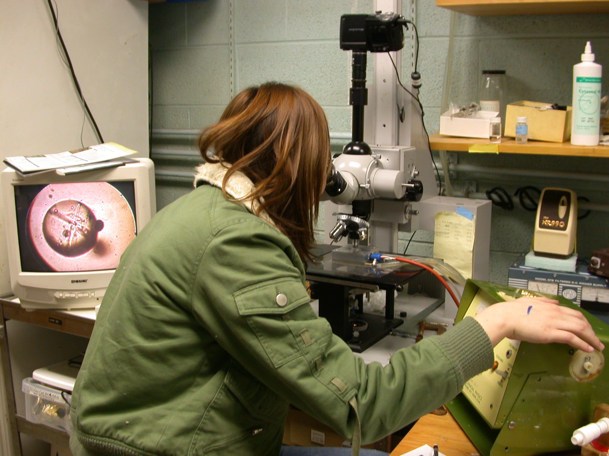 A scientist using the Clifton nanolitre osmometer. She is able to control the temperature of the nanoliter stage with the dial under her right hand. A live image of the sample holder (video taken through the microscope) can be seen on the monitor at left. Photo by Paul A. Cziko.